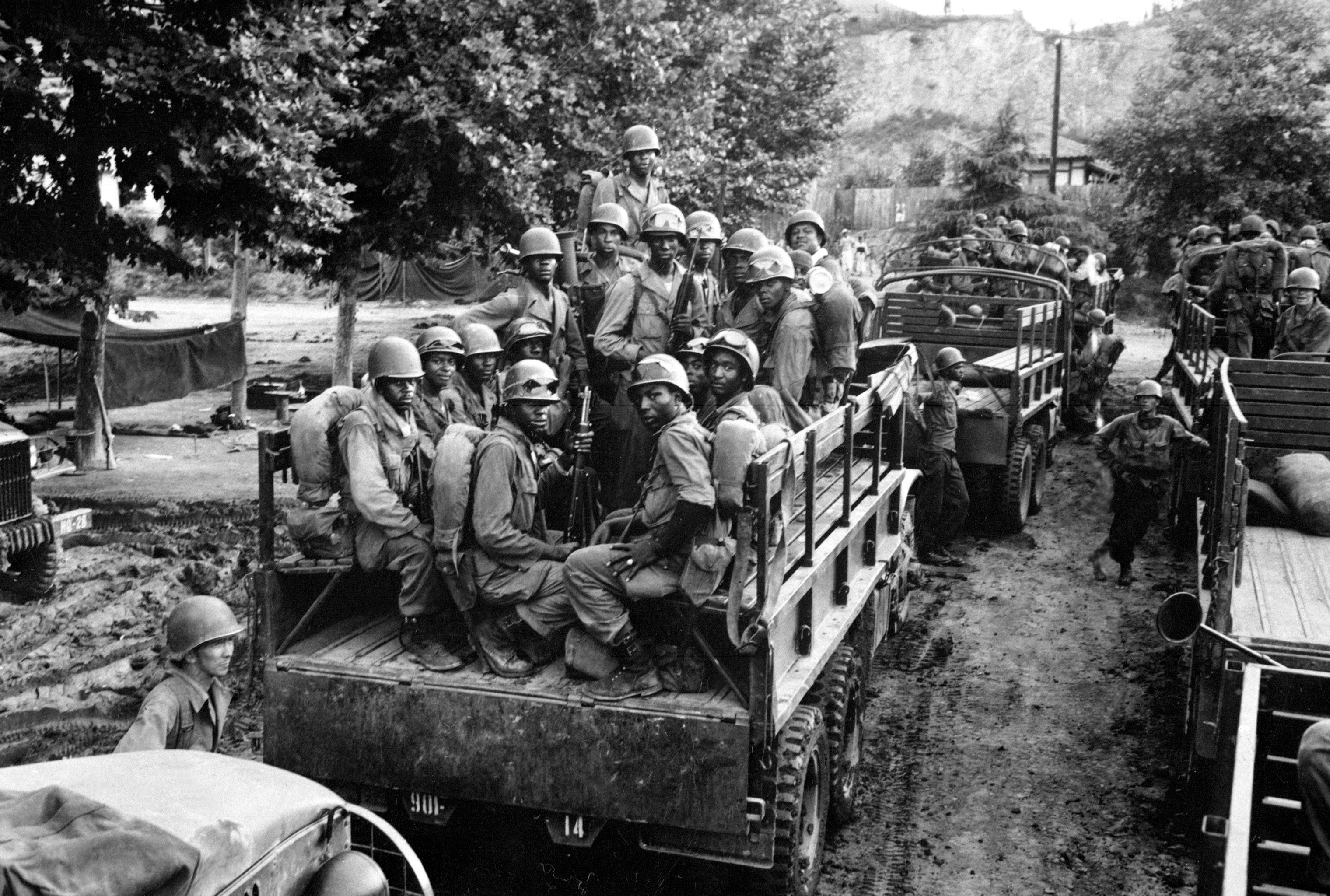 Men of the 24th Inf. Regt. move up to the firing line in Korea. July 18, 1950. Breeding. (Army) NARA FILE #: 111-SC-343967 WAR & CONFLICT BOOK #: 1385 This media is available in the holdings of the National Archives and Records Administration, cataloged under the National Archives Identifier (NAID) 531362. This tag does not indicate the copyright status of the attached work. A normal copyright tag is still required. See Commons:Licensing.